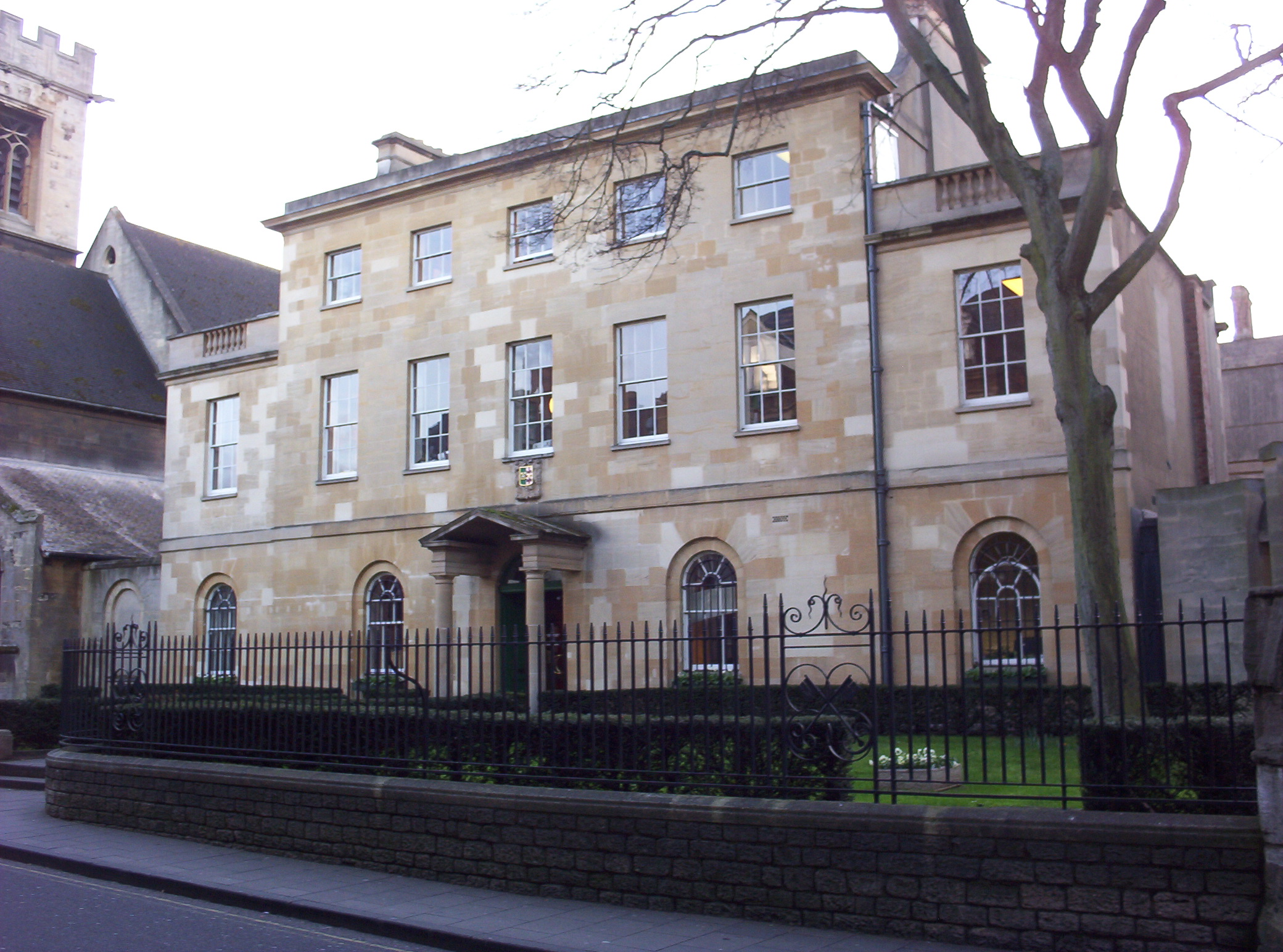 Photograph of the lodge (front) of St Peter's College, Oxford. Photo by me. --Alf melmac 16:06, 31 January 2007 (UTC)